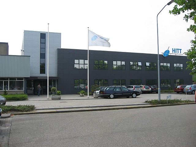 Headquarters HITT.